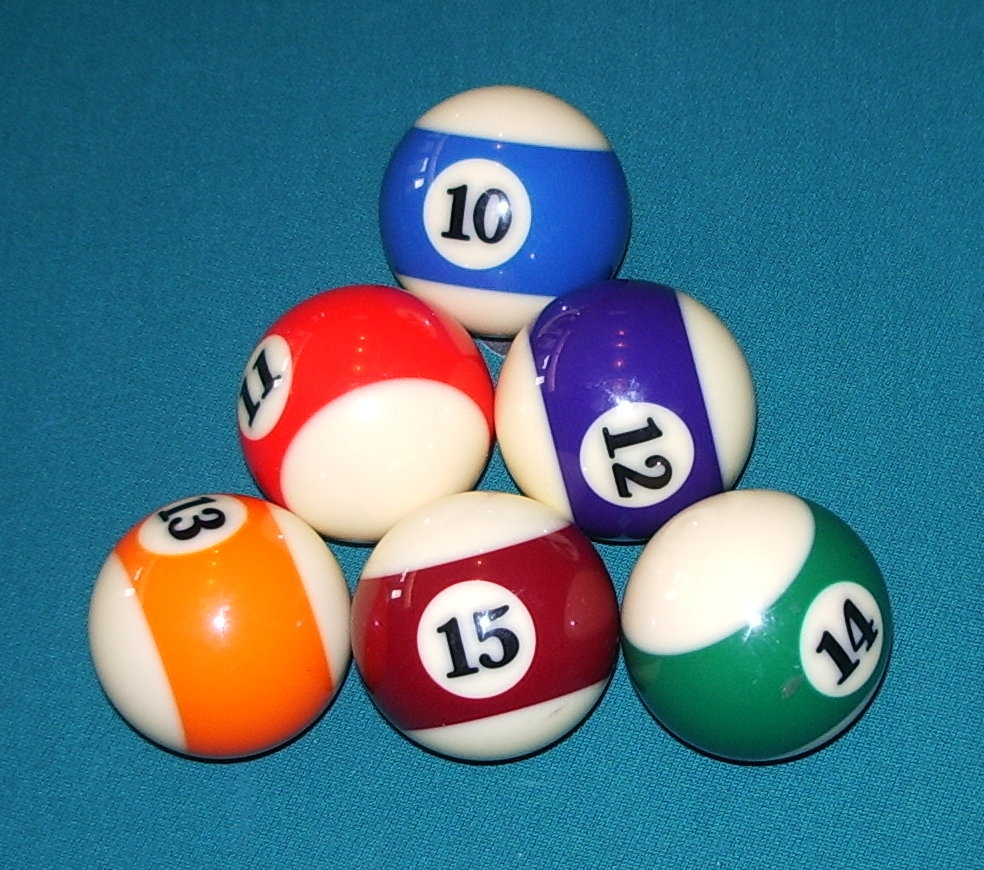 One of many valid racks in the pocket billiards (pool) game of six-ball when played with the remainders from a game of nine-ball; the 11 (lowest) ball is at the apex of the rack and is on the foot spot, the 16 (highest) is in the center of the back row, with all other balls placed randomly, and all balls touching.